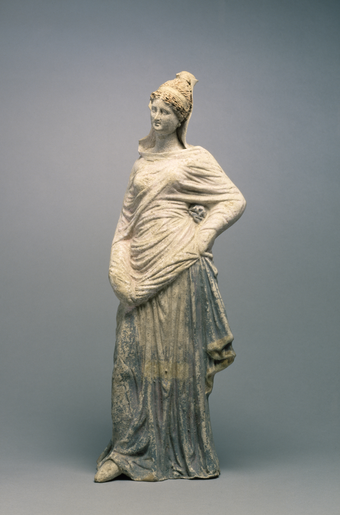 The willowy shape and the draping of the fabric on top of the maiden's high, "melon" hairstyle are typically South Italian. The statuette was originally brightly painted.